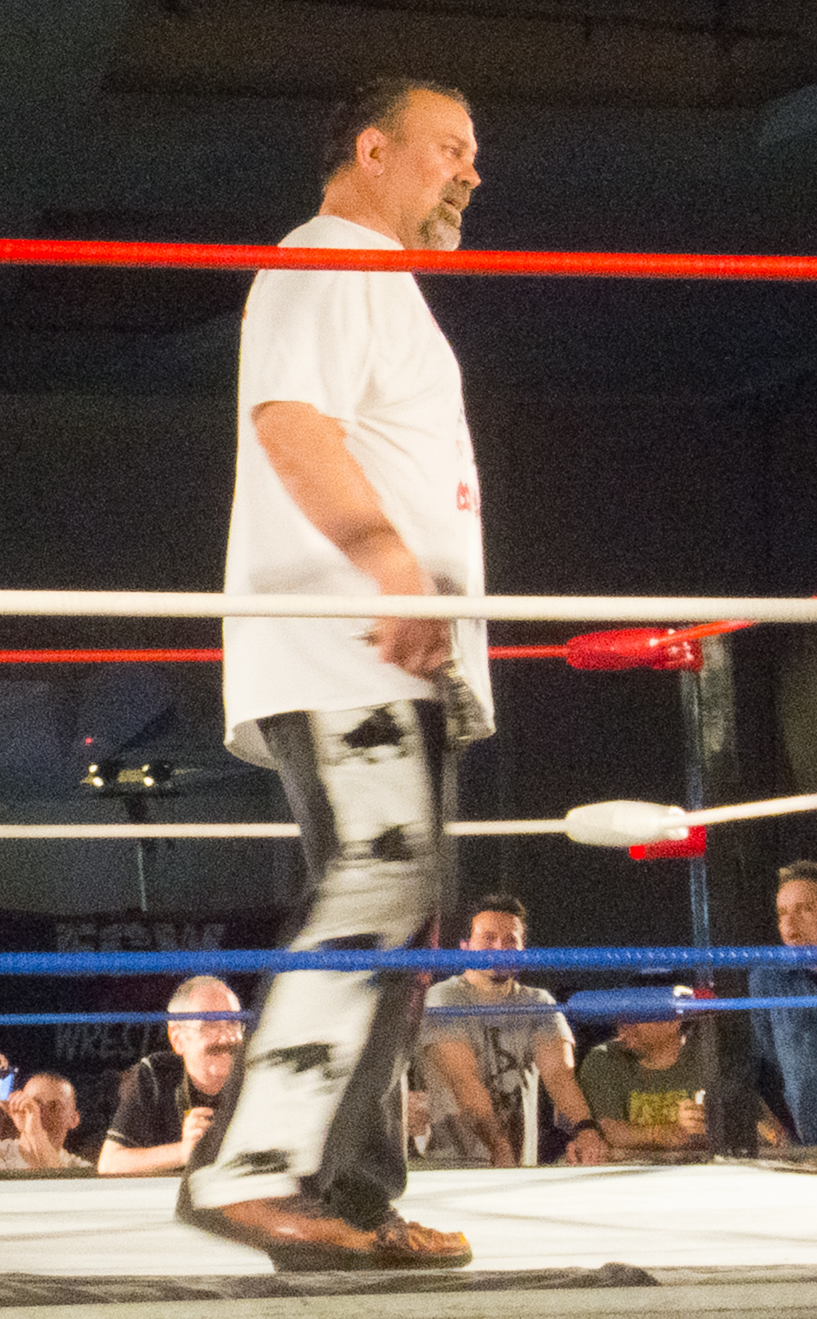 Legends Show @ WrestleReunion